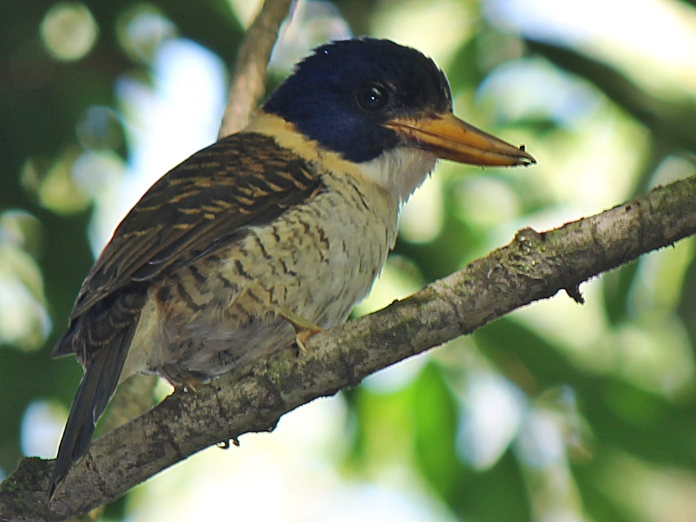 Male of Scaly-breasted Kingfisher (Actenoides princeps princeps) at Mount Mahawu, North Sulawesi